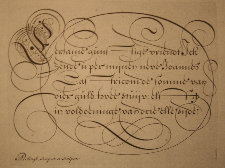 Ambrosius Perling, a page from Exemplaer-Boek, 1679.